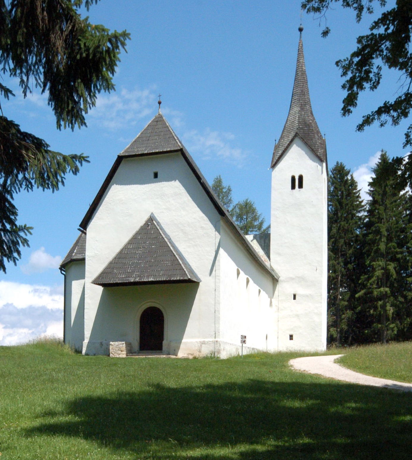 Subsidiary and pilgrimage church Holy Hemma and Holy Dorothea at Hemmaberg in the community Globasnitz, district Voelkermarkt, Carinthia, Austria